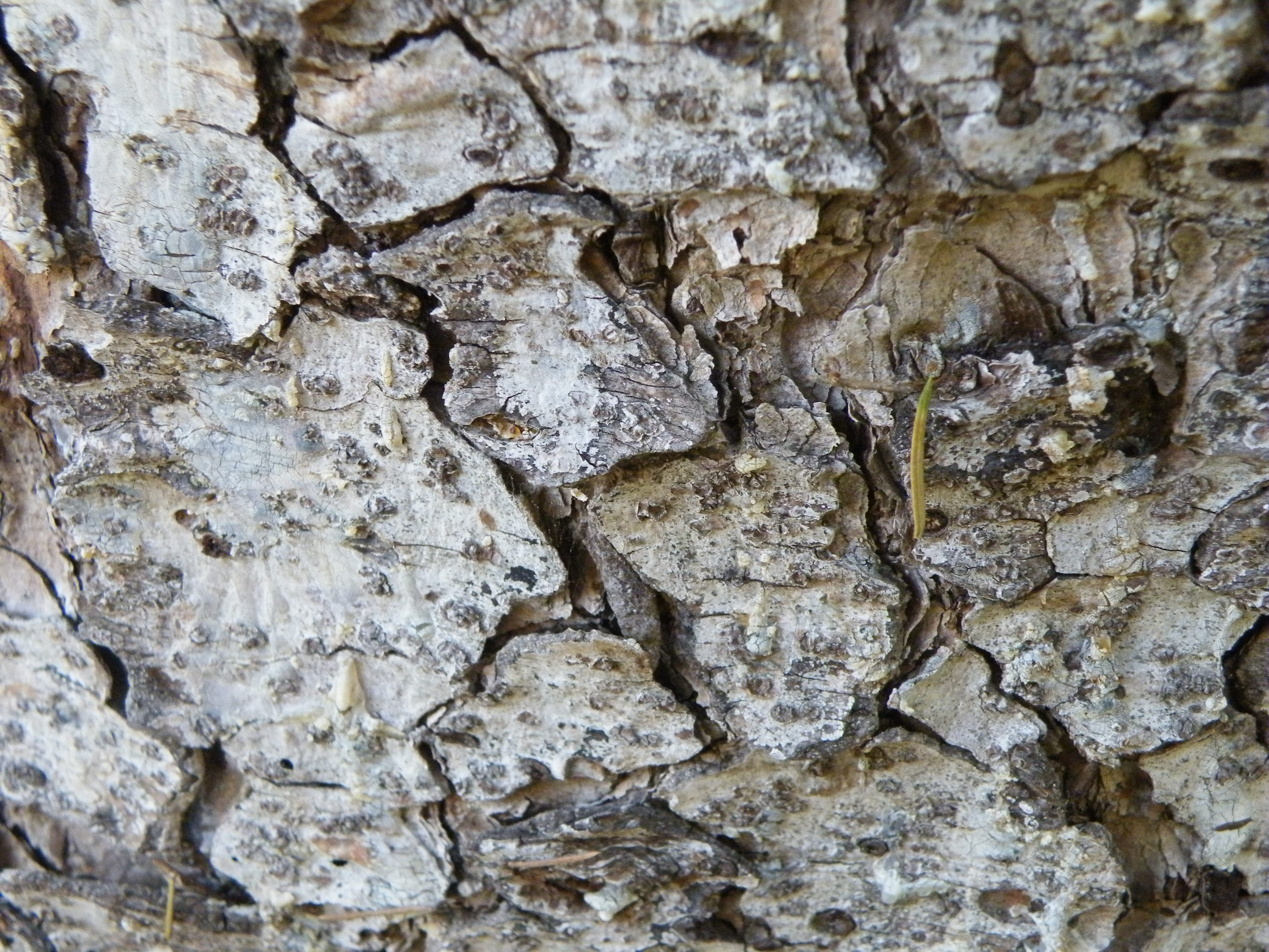 Oriental spruce (or Caucasian spruce) is a large coniferous evergreen tree growing to 30–45 m tall or 98-145 feet(exceptionally to 57 m), and with a trunk diameter of up to 1.5 m (exceptionally up to 4 m). This media file is produced by Wikipedian in Residence in Botanical Garden Jevremovac in 2015.